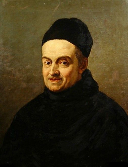 Painting of Giovanni Battista Martini (1706–84) by an unknown artist (Bologna, Liceo Musicale)